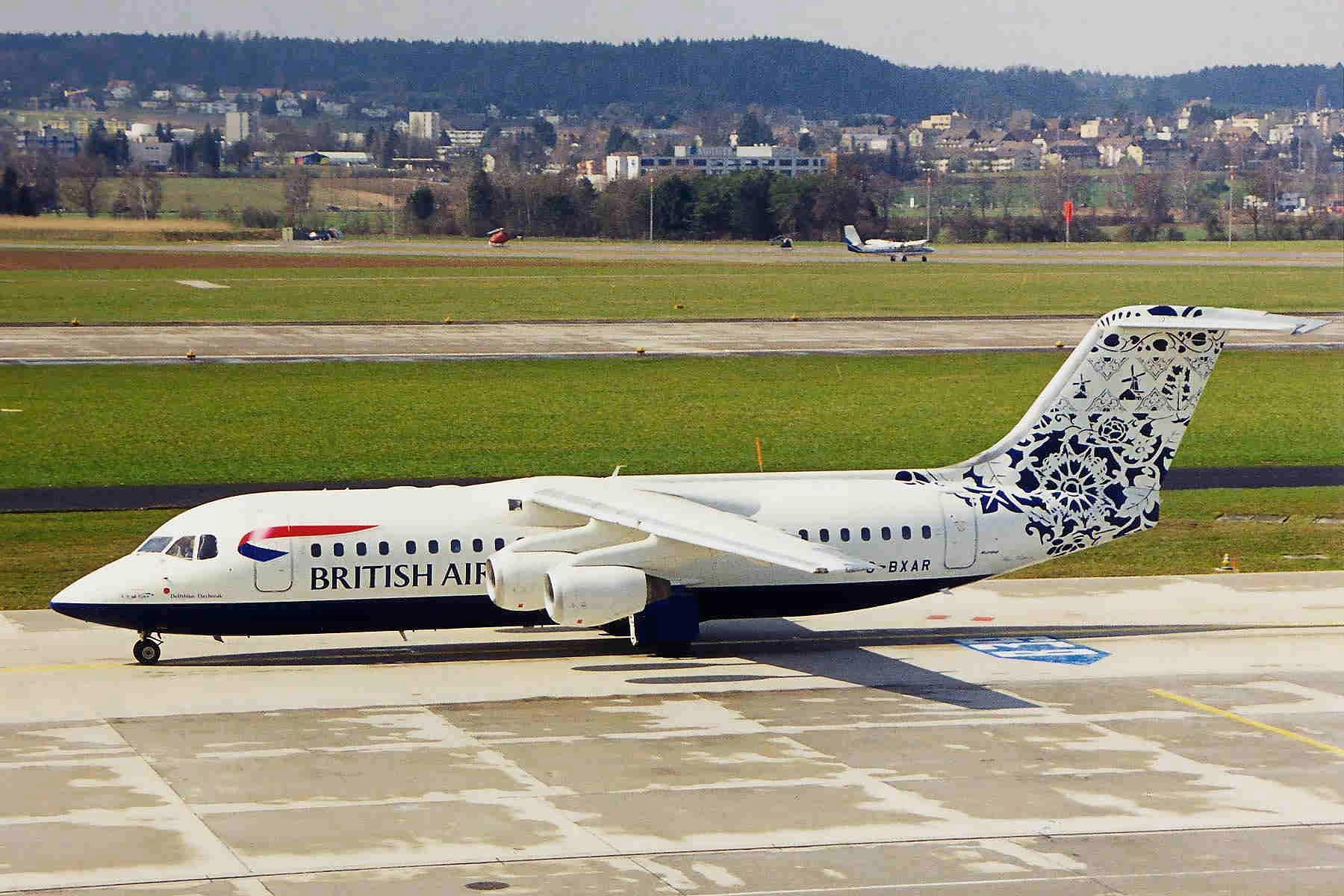 'Delft Blue Daybreak', Netherlands Workd Tail c/scheme